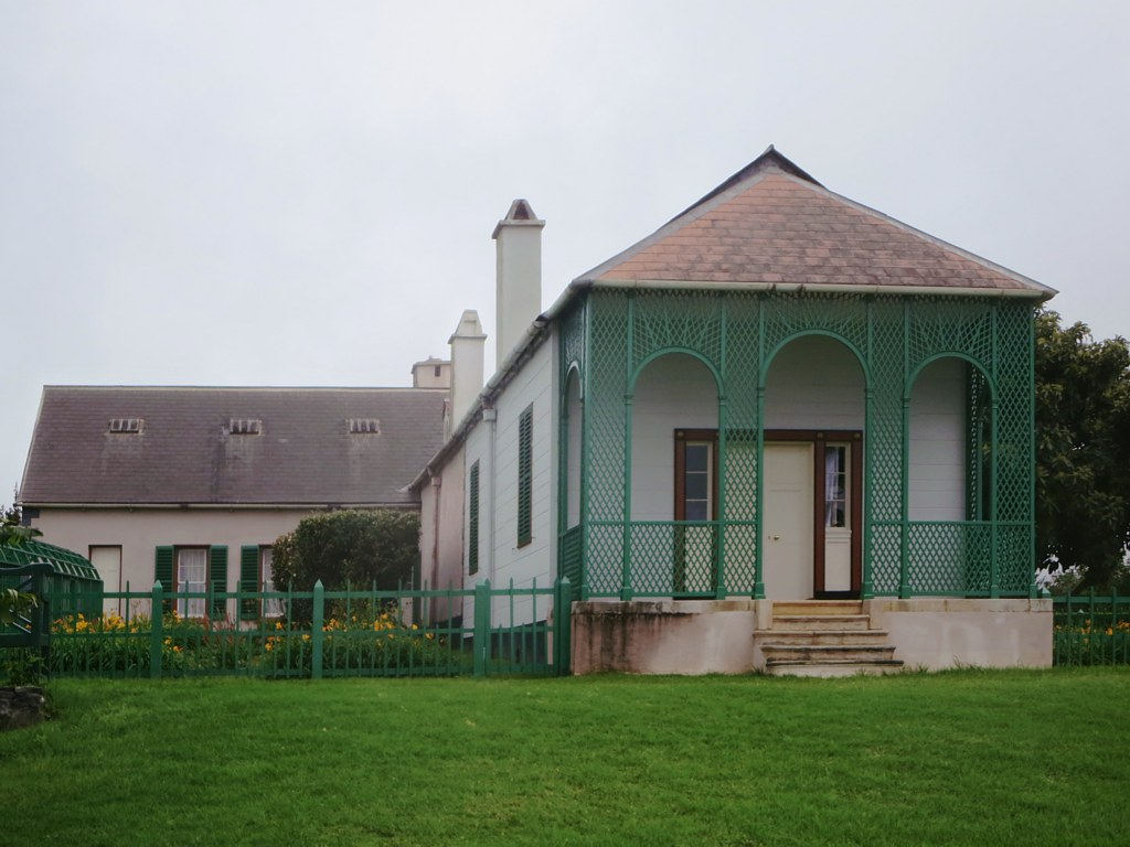 From 1815 to 1821 during his exile on St Helena Island, Napoleon Bonaparte lived at Longwood House. Today the building is a museum owned by the French government.